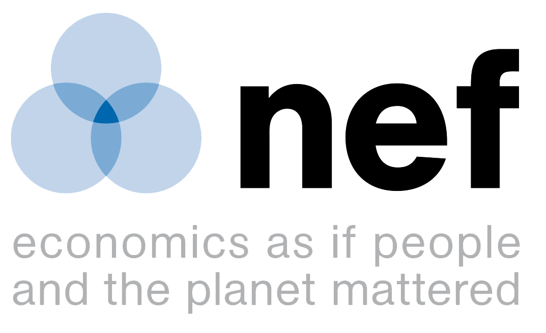 New Economics Foundation logo and slogan